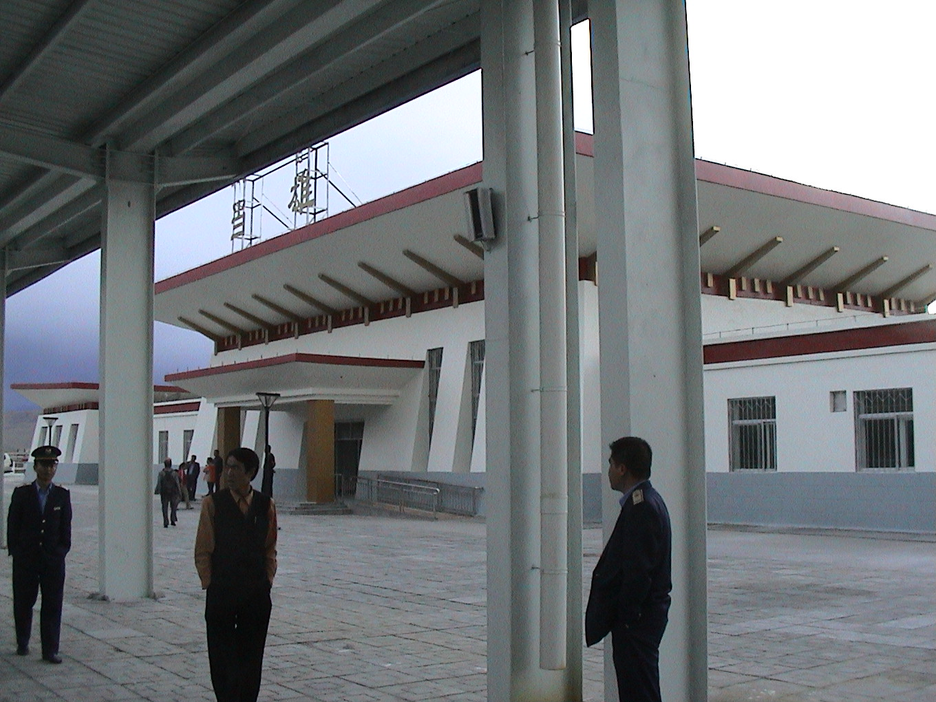 当雄站: Damxung station, Lhasa prefecture-level city.